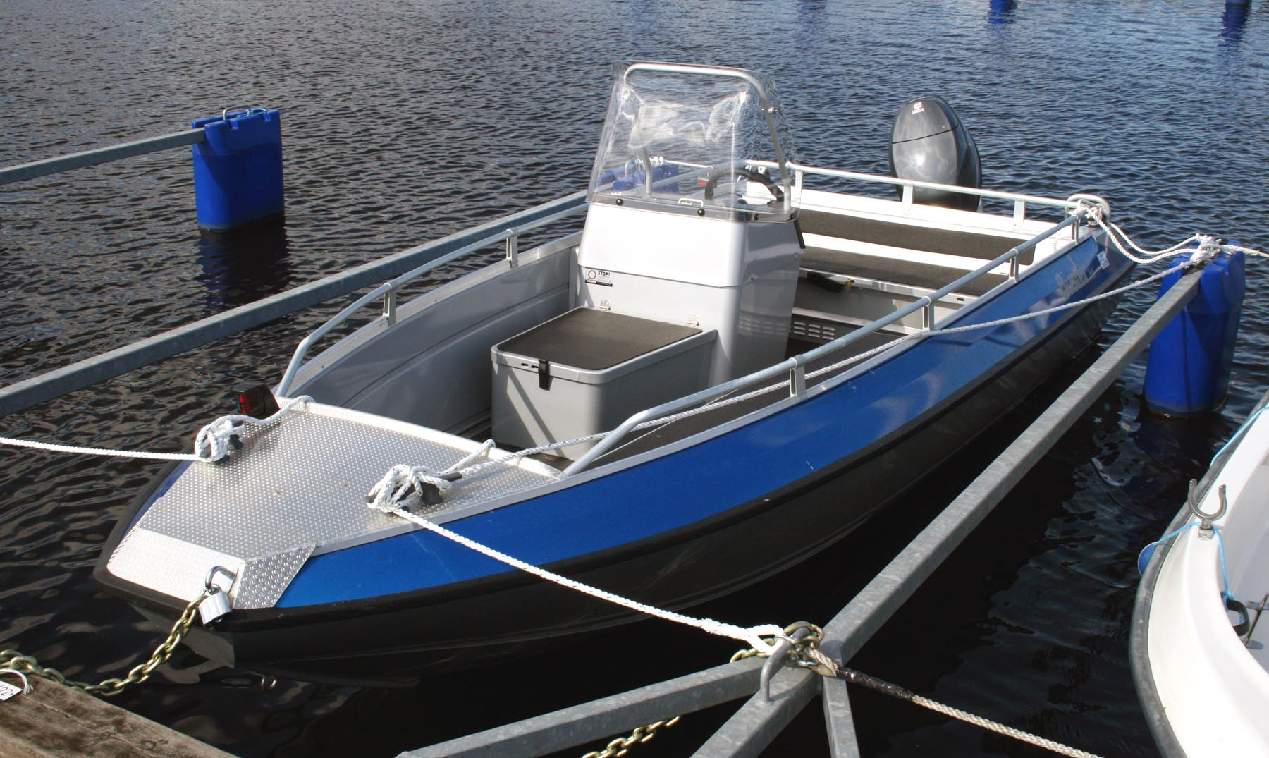 Buster M, the same boat as Image:Buster M motorboat.jpg